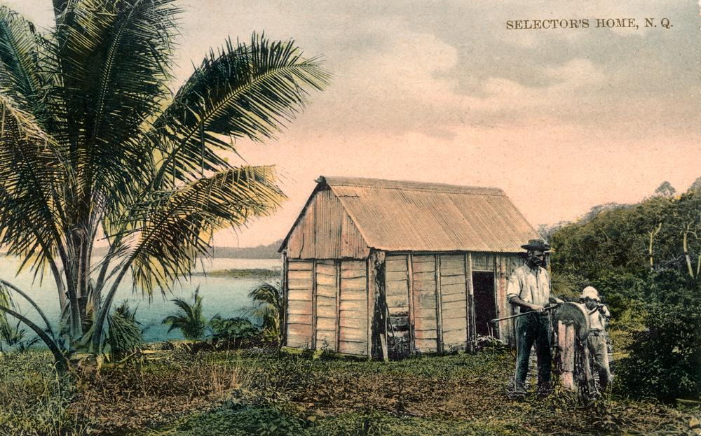 Man and child in front of a North Queensland bark hut, ca. 1900-1910. Hand coloured image of a man and child sharpening an axe in front of their bark hut in tropical North Queensland, around 1900-1910. The man is holding the axe to the sharpening wheel, which the boy is cranking. Caption: Selector's Home, N.Q.